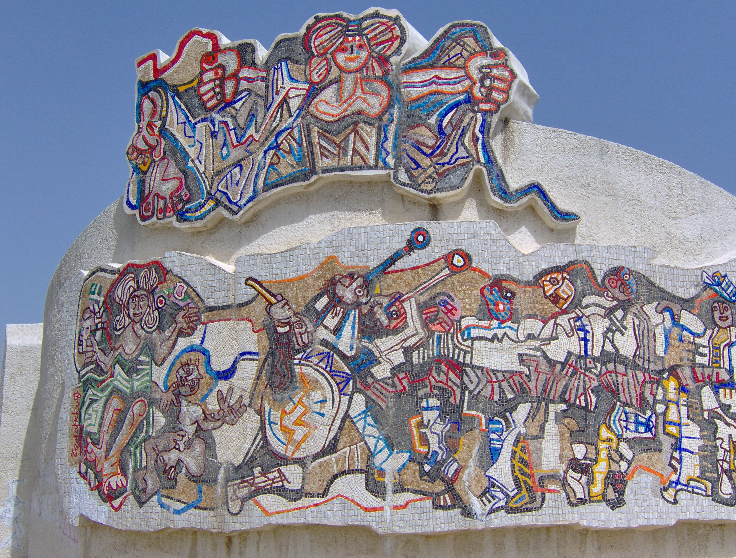 The monument of Freedom - Kocani (detail)